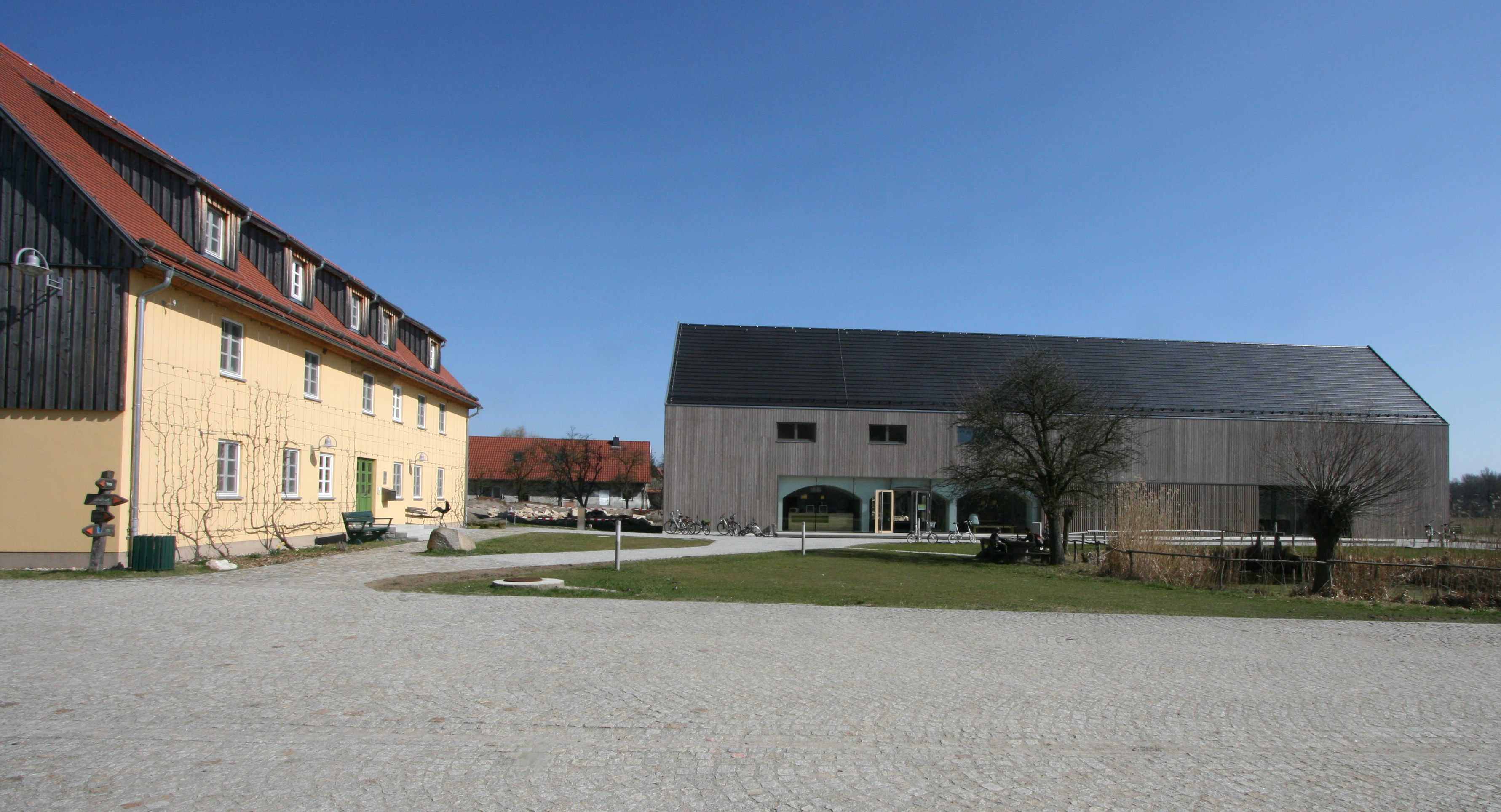 Biosphere reserve "Oberlausitzer Heide- und Teichlandschaft" visitor center and "Haus der 1000 Teiche" (house of the 1000 ponds) in Wartha (near Guttau, Saxony, Germany)